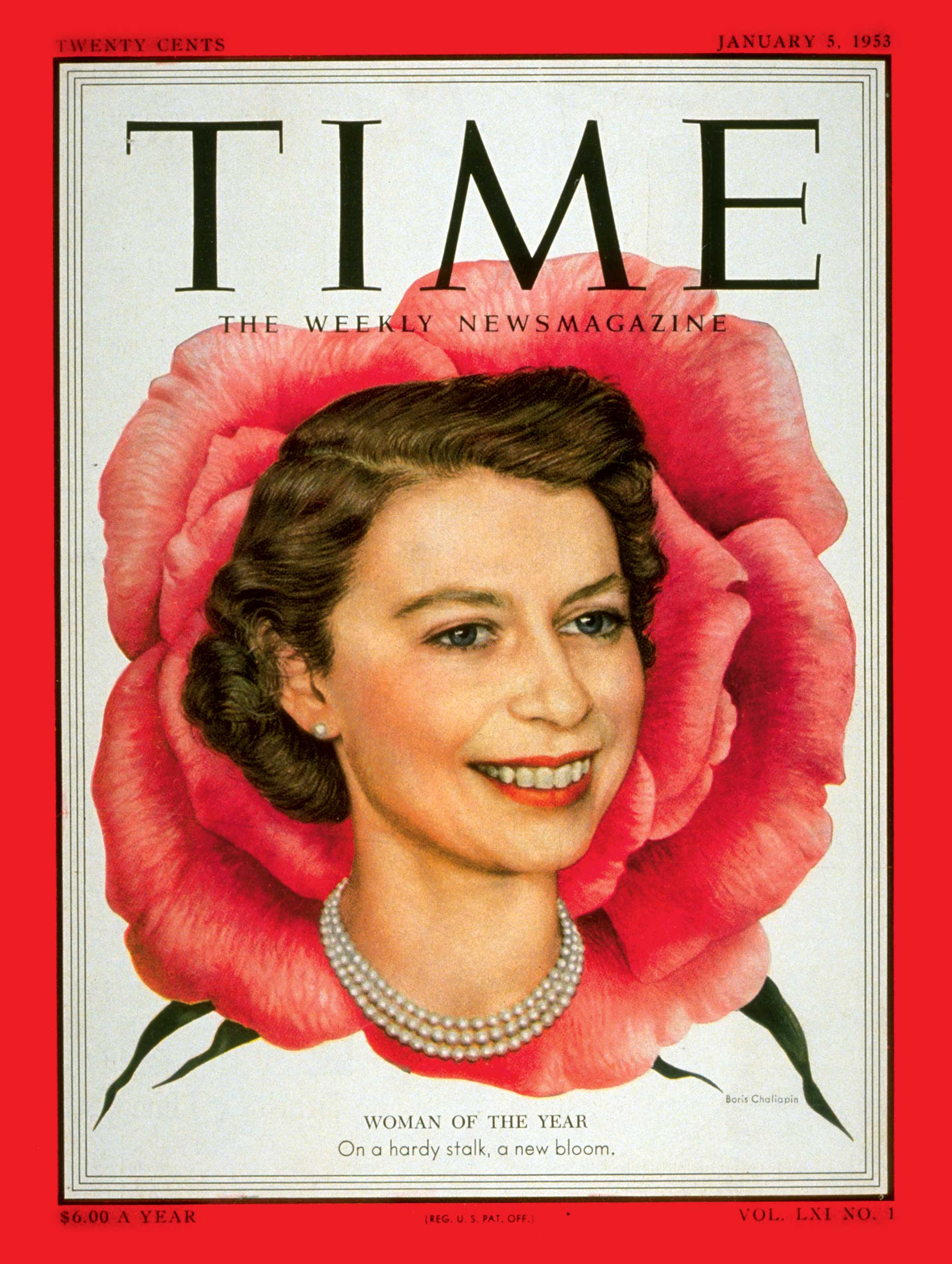 Time magazine, Volume 61 Issue 1. Front cover is a drawing of the Queen Elizabeth II of the United Kingdom.